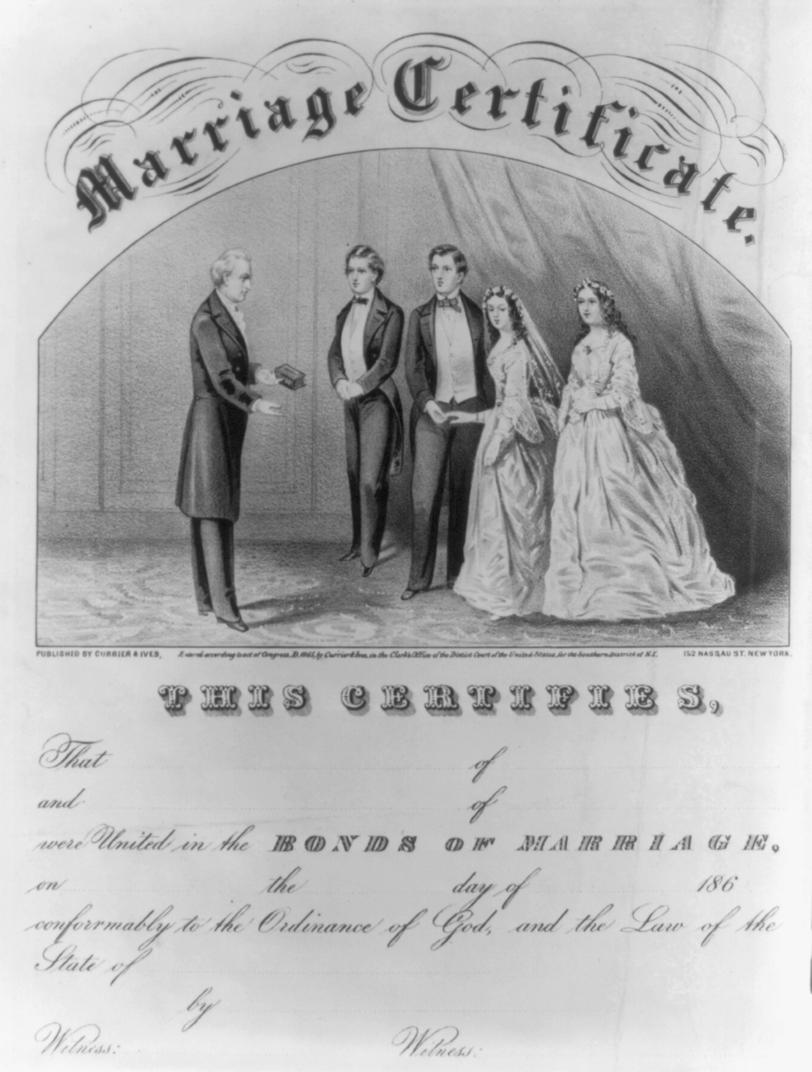 Marriage certificate